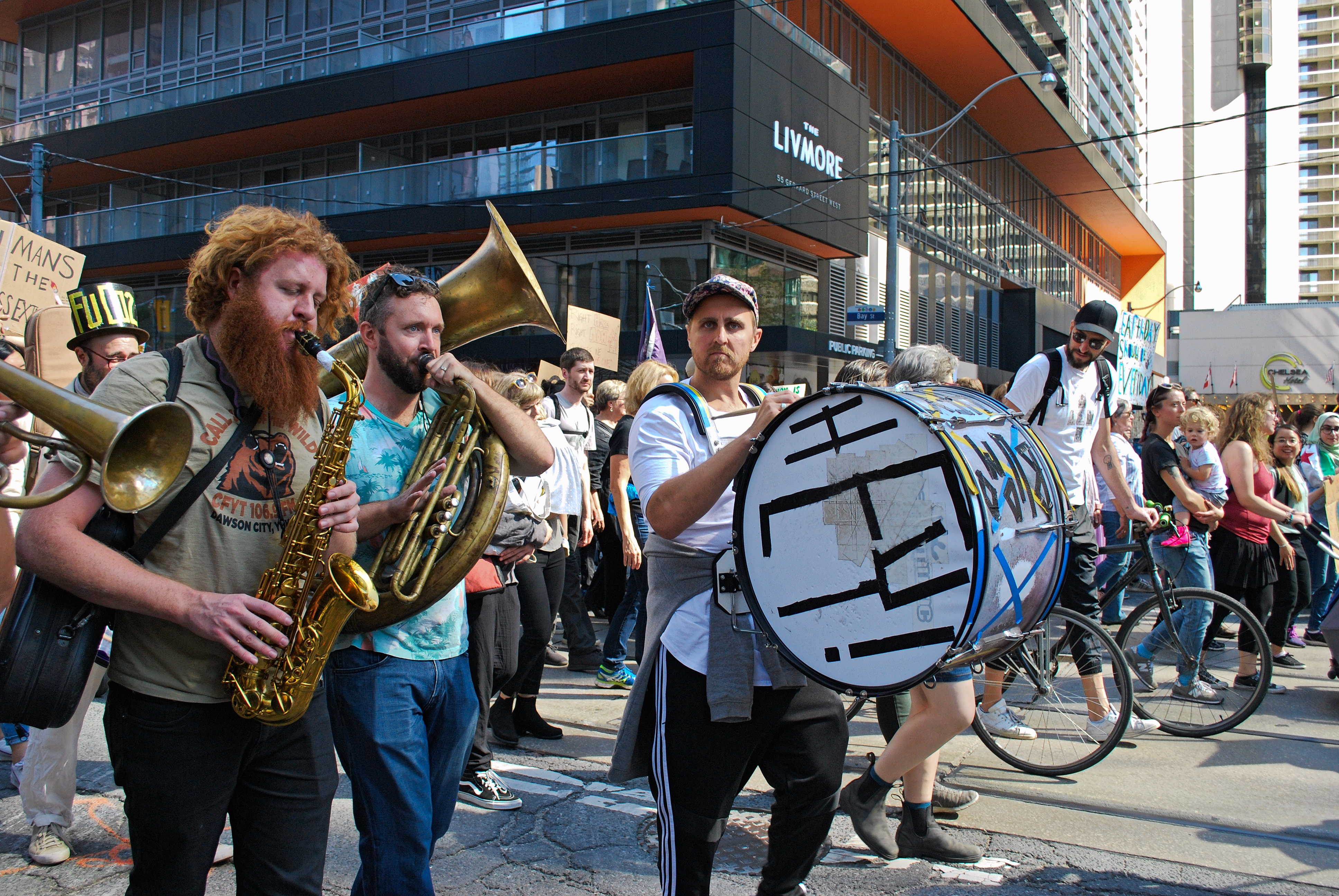 One of several marching bands at the Global Strike for Climate Justice in Toronto.